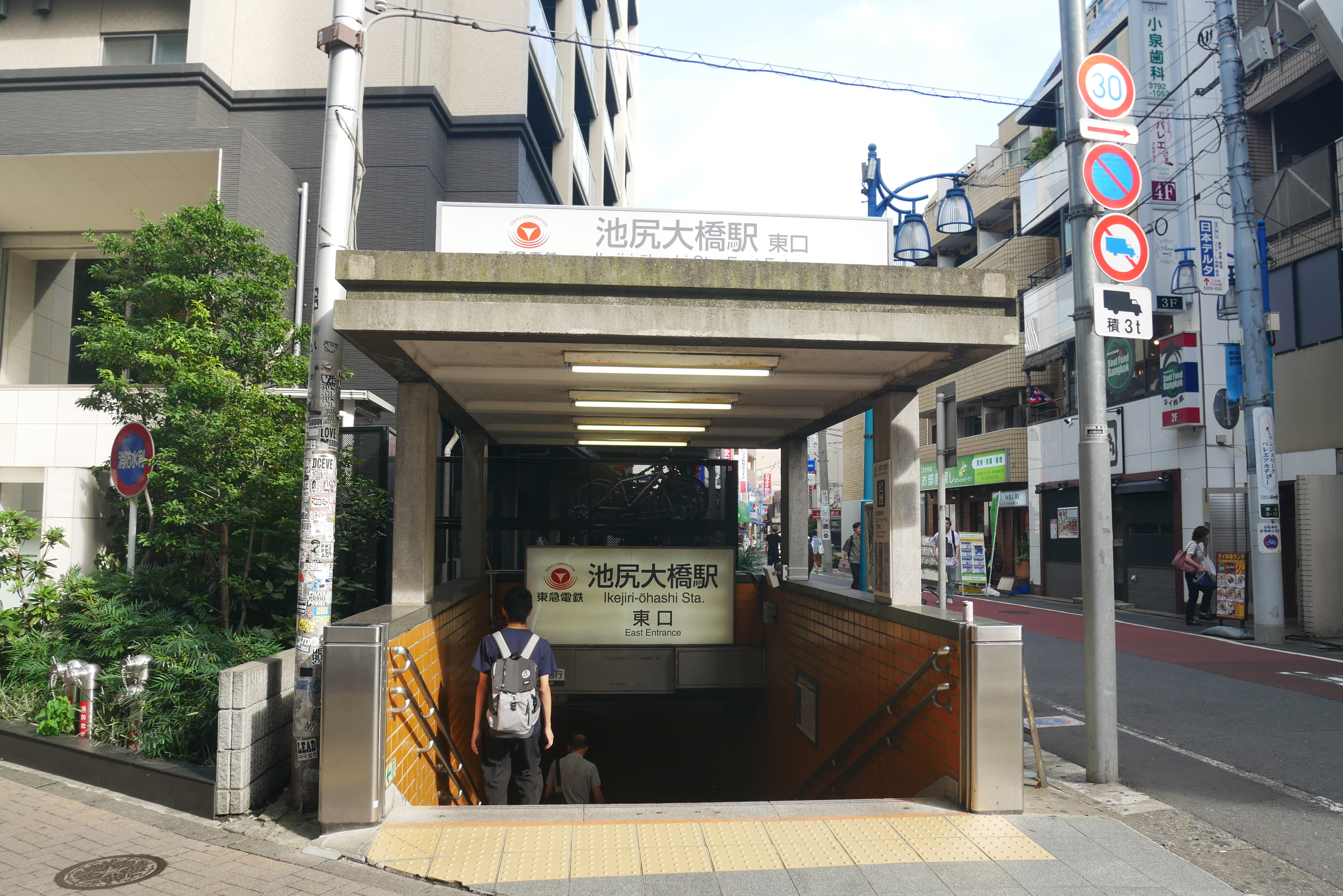 Ikejiri-Ōhashi Station east entrance (池尻大橋駅の東口)